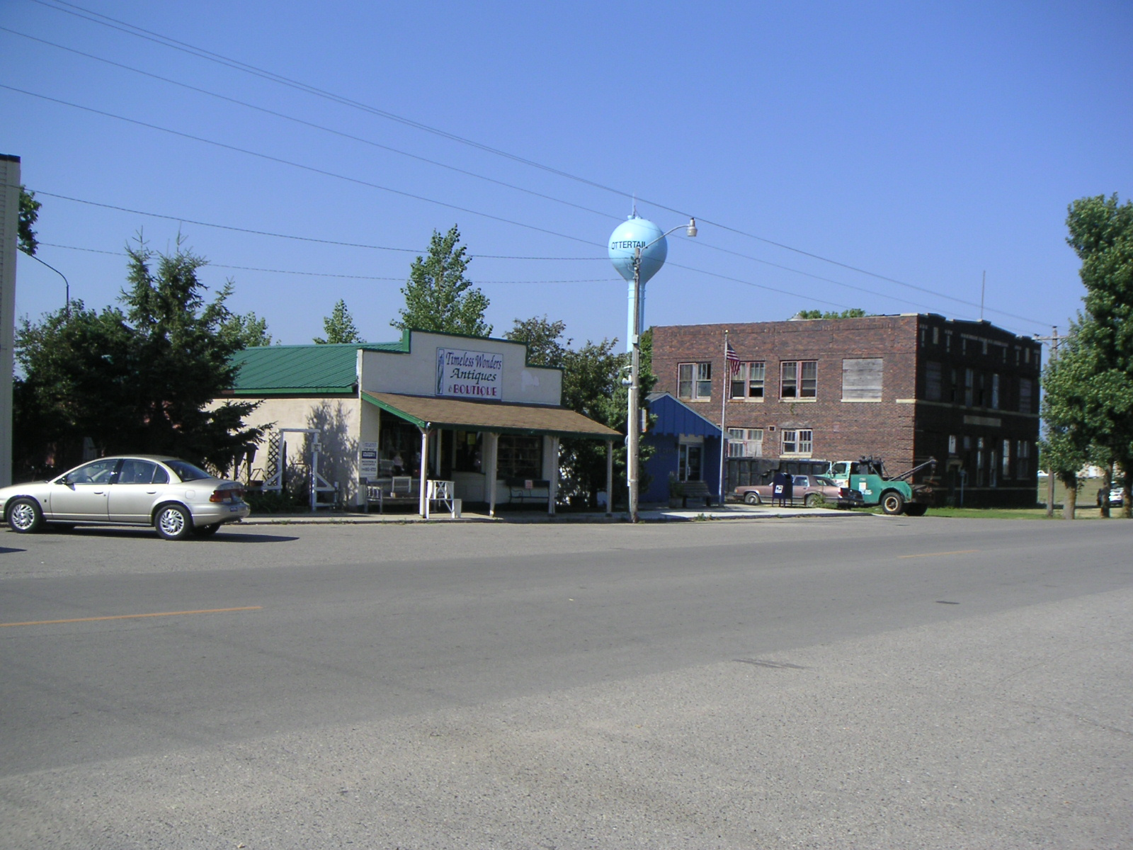 Ottertail, Minnesota - Main Street, facing southwest